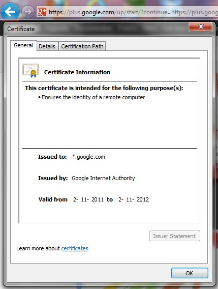 A print screen of a wildcard certificate on made i.c.w. Microsoft Internet Explorer.